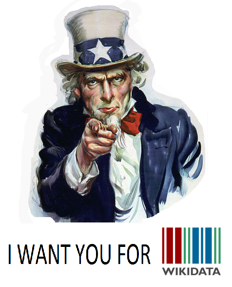 Derivative work of I want you for the U.S. Army nearest recruiting station through File:Uncle sam i want you to edit wikipedia arabic.png. Feel free to override it with your better idea! :)